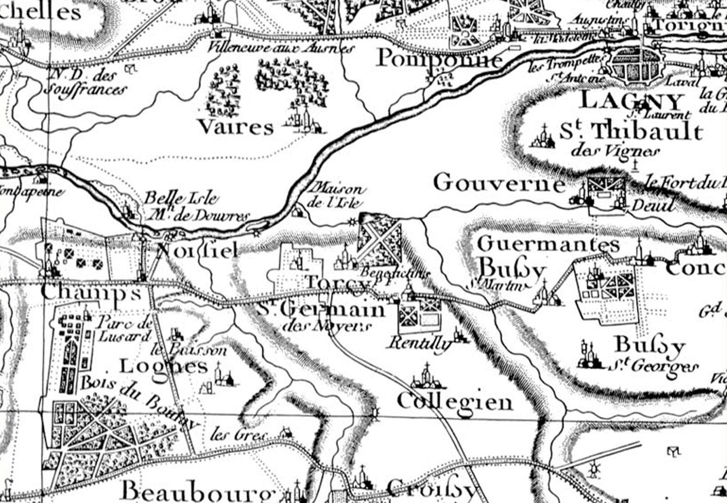 Extrait de la carte dessiné par Cesar Cassini en 1747, montrant Torcy et les alentours.